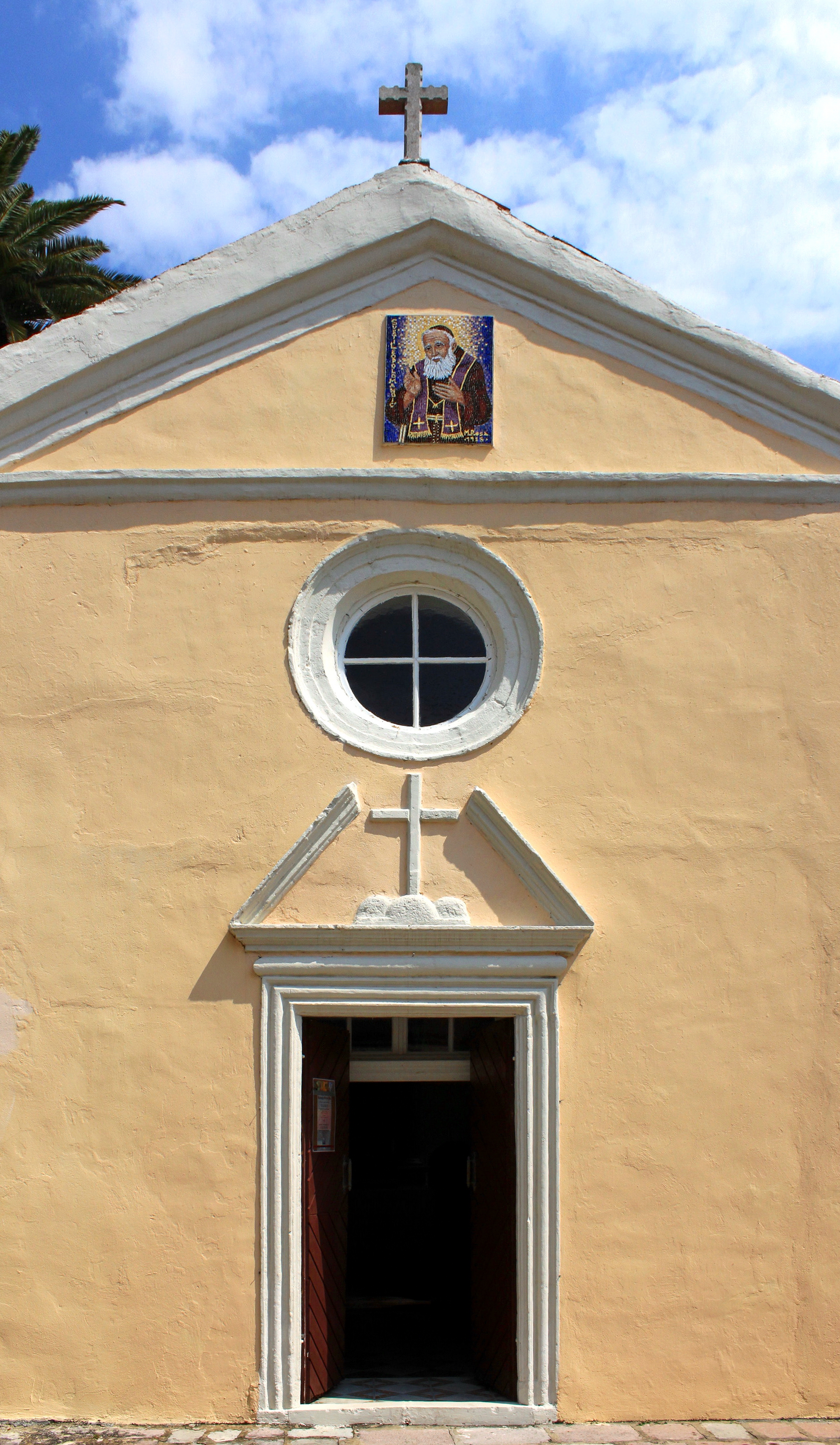 Church of St. Leopold Mandic. Herceg Novi, Montenegro.